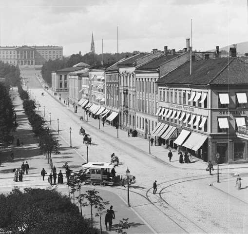 Karl Johans gate in Oslo, about 1890.